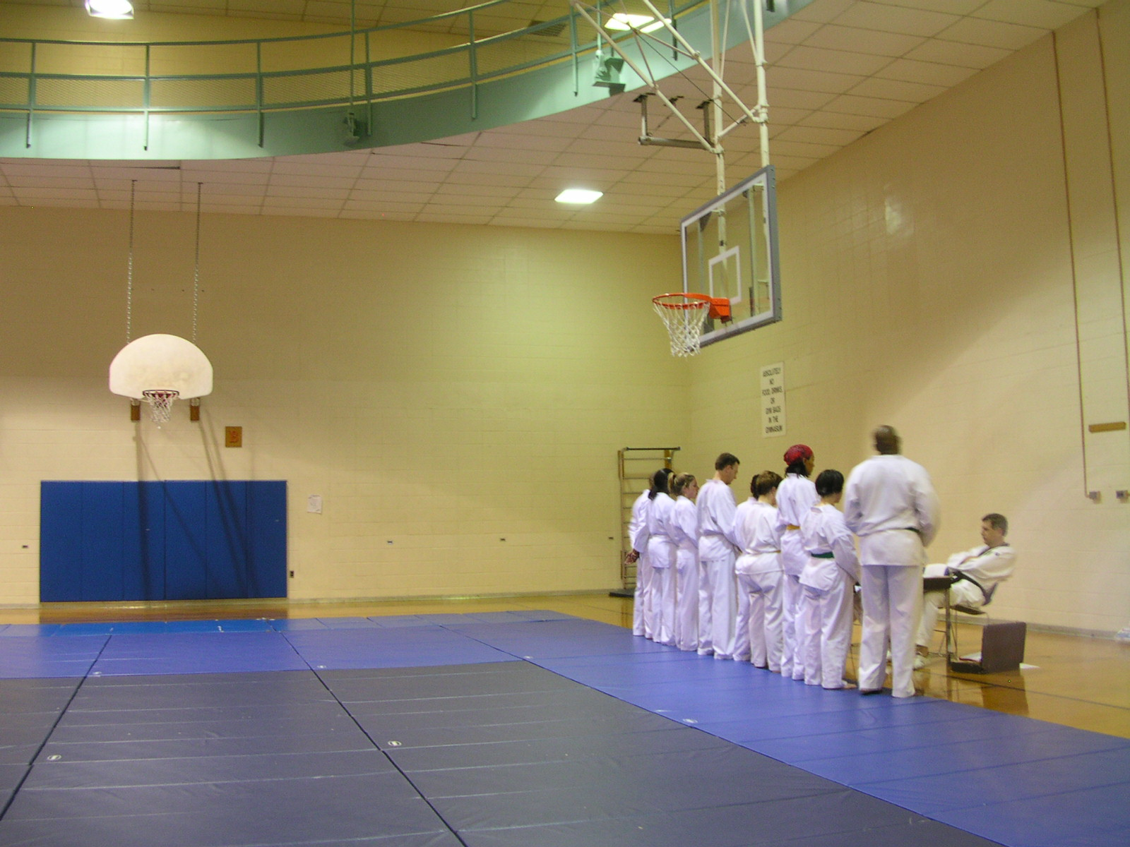 Taekwodo black stripe test